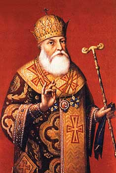 Pitirim, patriarch of Moscow and all Russia